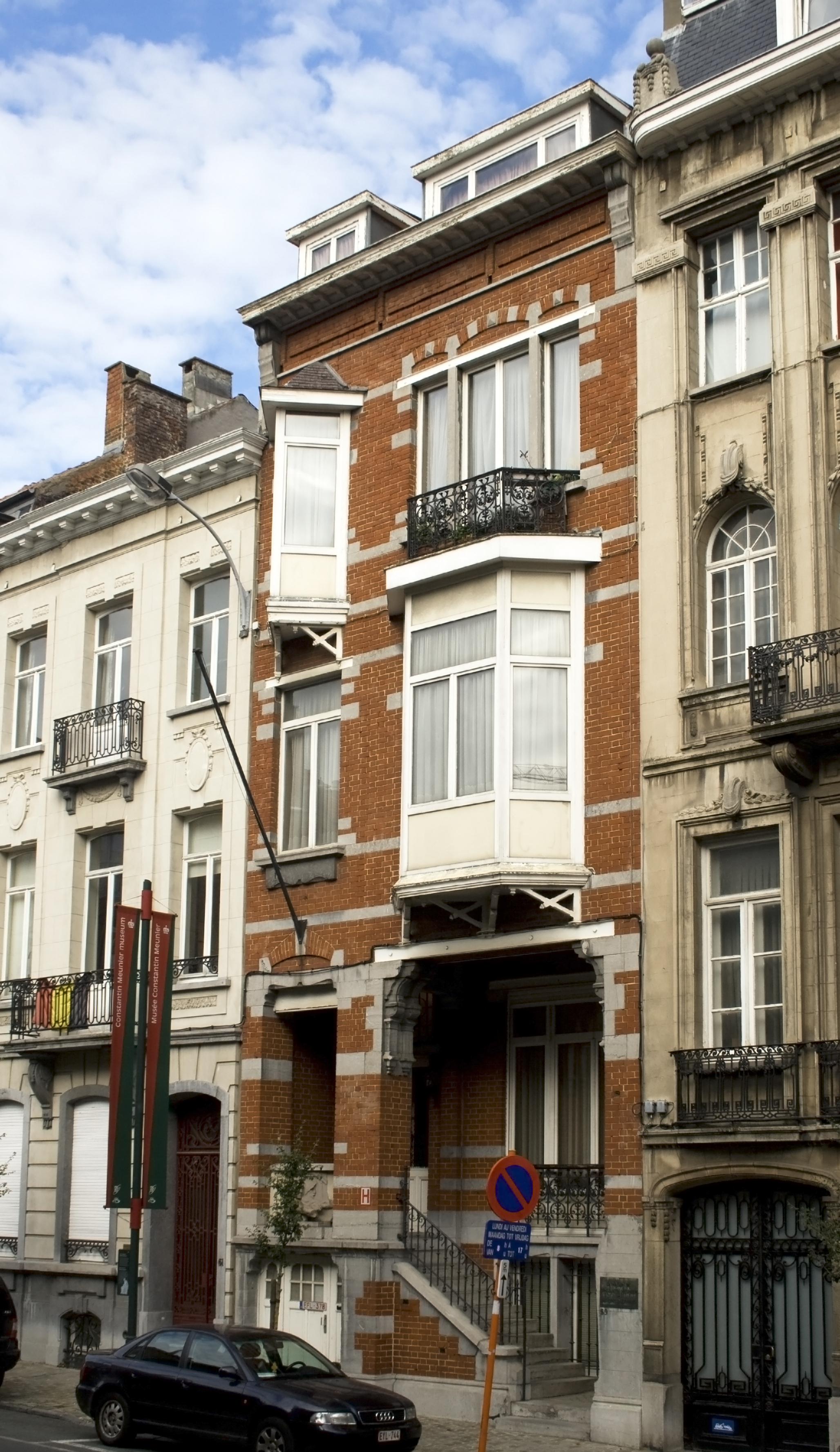 The Entrance of the Meunier Museum